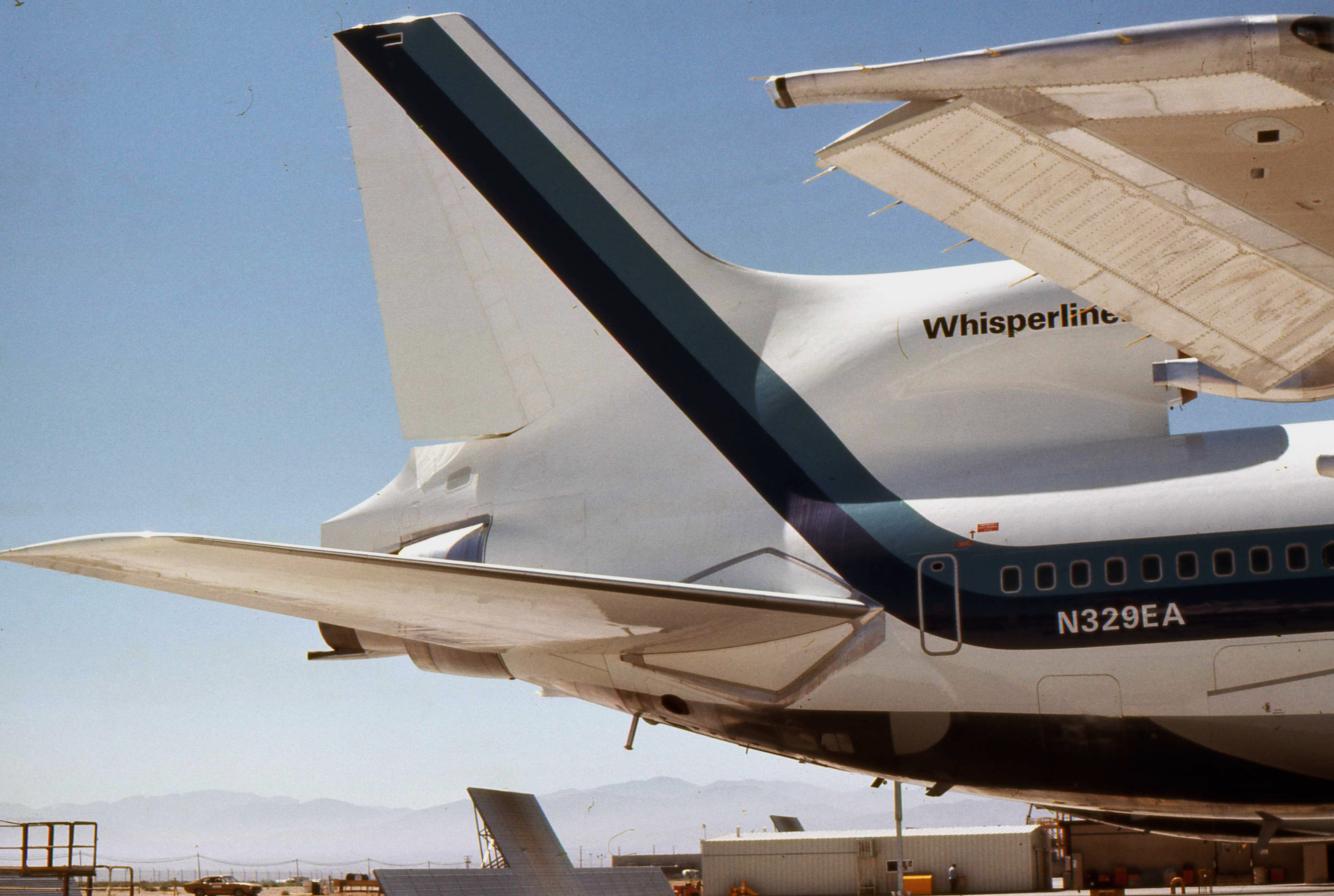 Eastern Air Lines Lockheed L-1011 TriStar N329EA taken at Lockheed plant in Palmdale before delivery in August 1974.